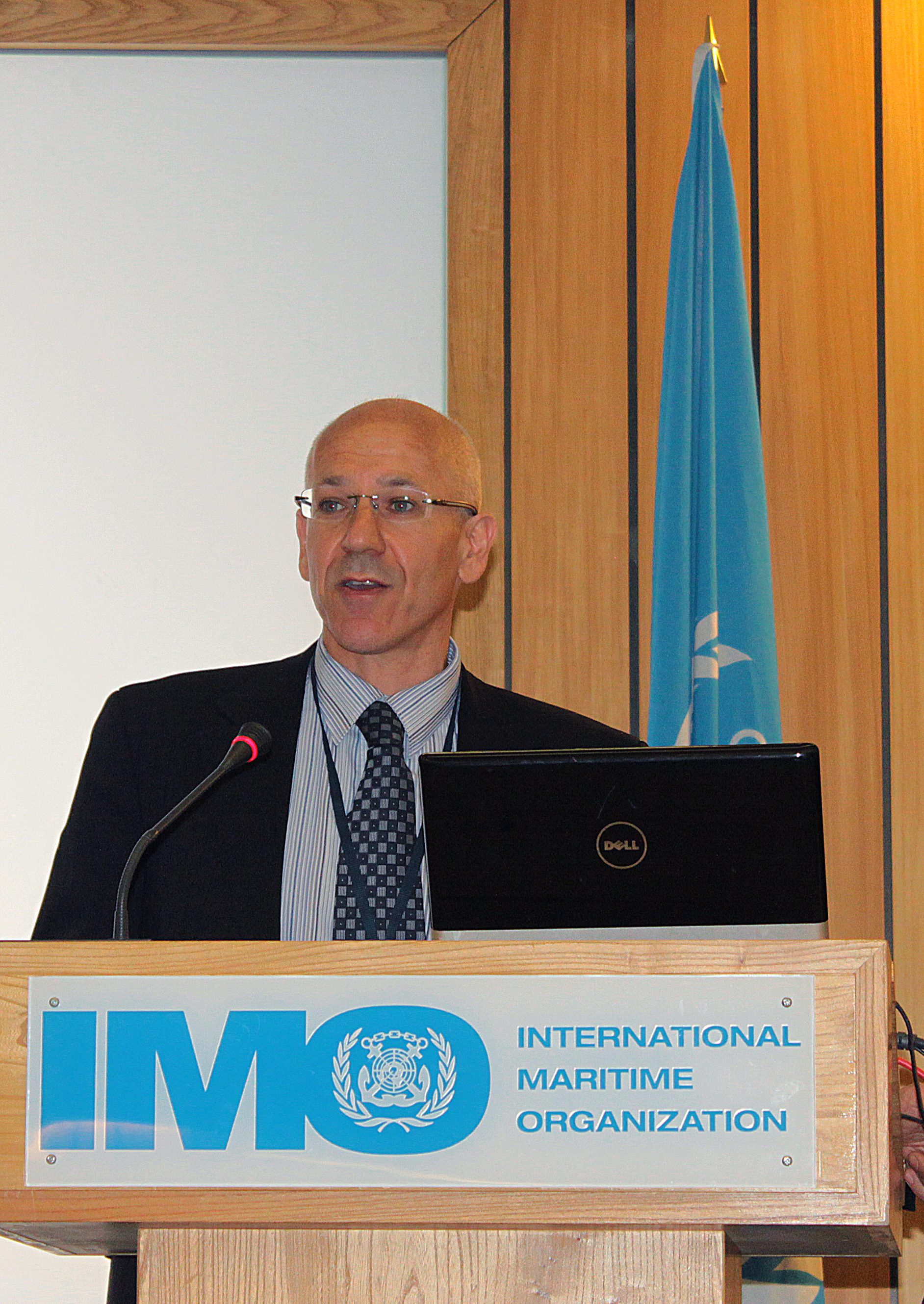 Professor Neil Greenberg, Clinical Director, March on Stress, spoke on the Human Element and Maritime Safety